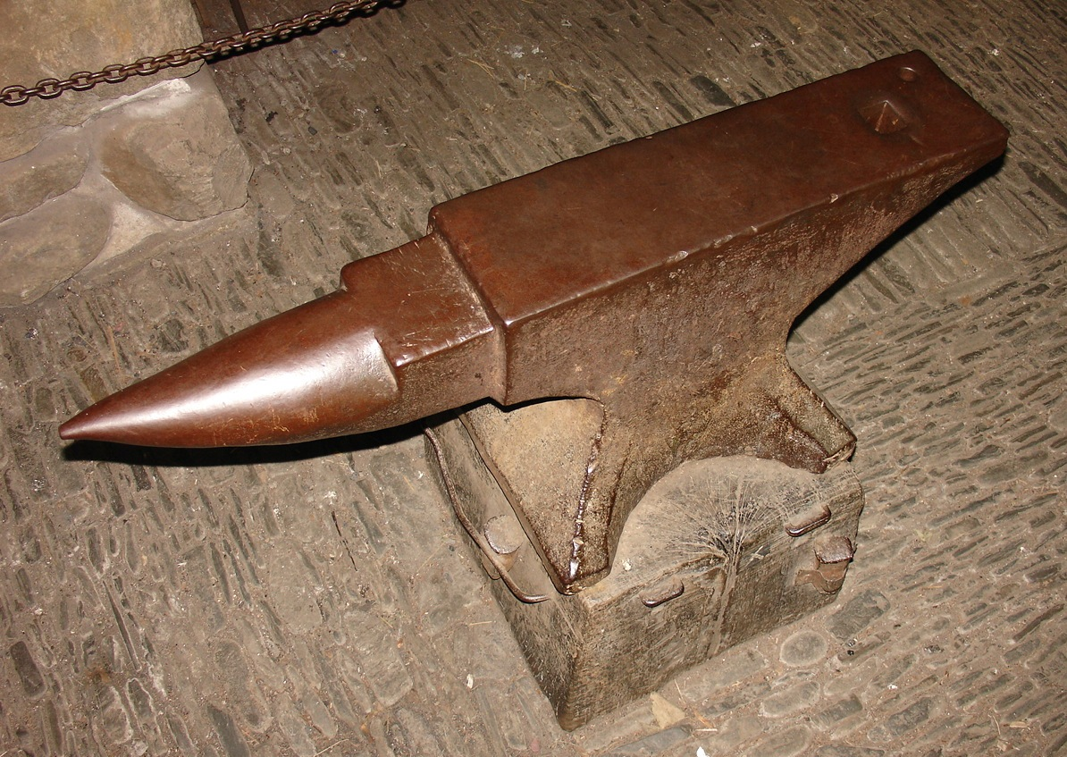 Anvil, photo taken in Welsh Museum, St. Fagans, Cardiff, Wales, UK